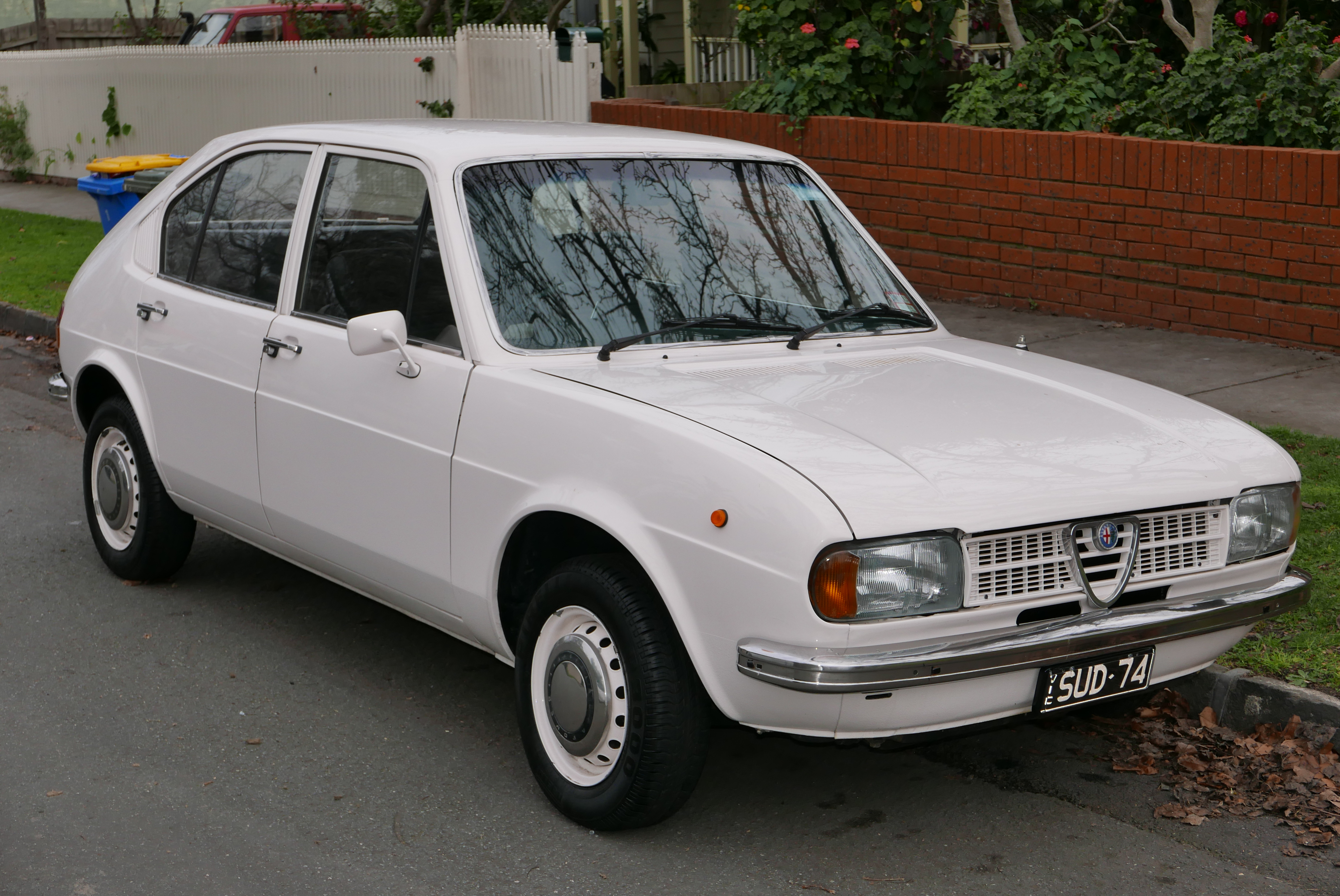 1974 Alfa Romeo Alfasud 4-door sedan. Photographed in Kew, Victoria, Australia. Vehicle registration enquiry results Jurisdiction Victoria Registration SUD74 Chassis code AS5152035901A Engine code AS301000155407 Compliance date 1974-12 Year of manufacture 1974